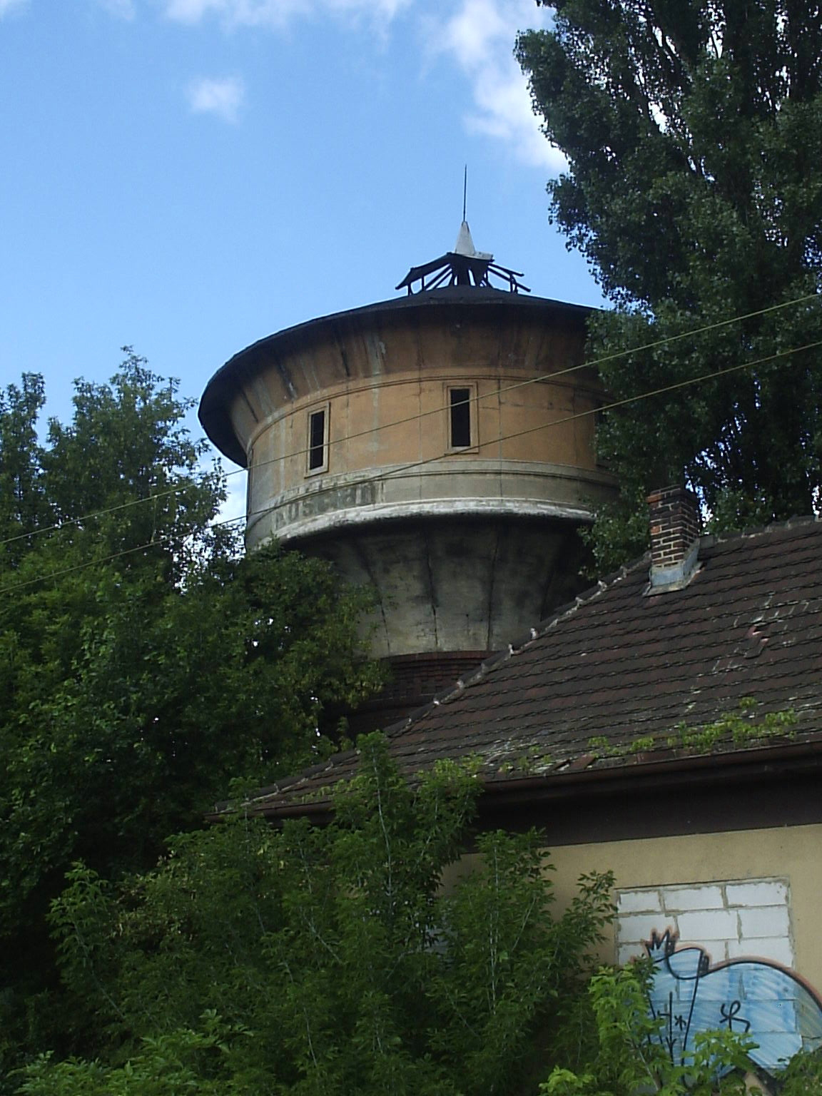 Water tower - train station in Kościan, Poland